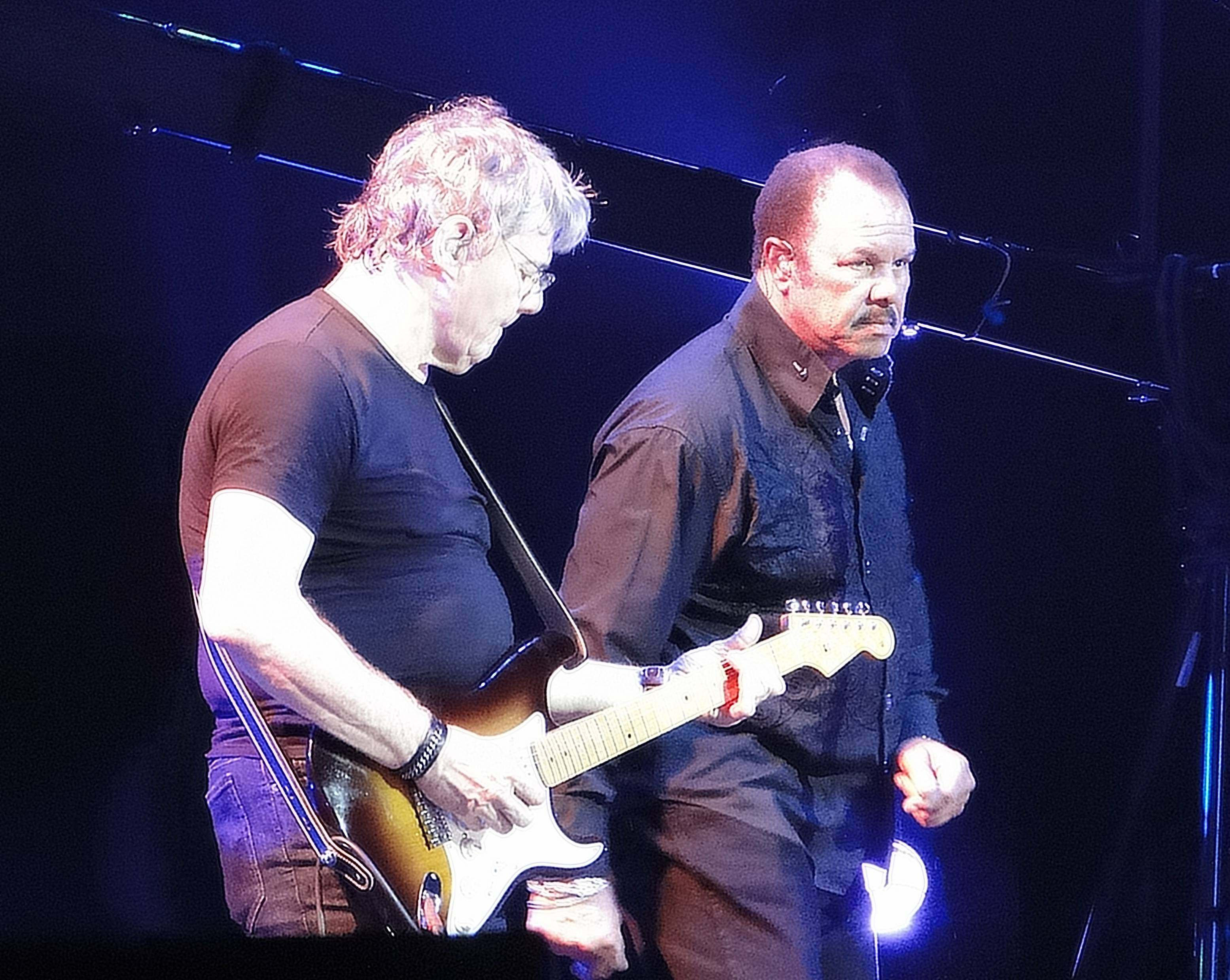 Steve Miller (left) with Sonny Charles at London's Royal Albert Hall, with the Steve Miller Band on 7/10/2010